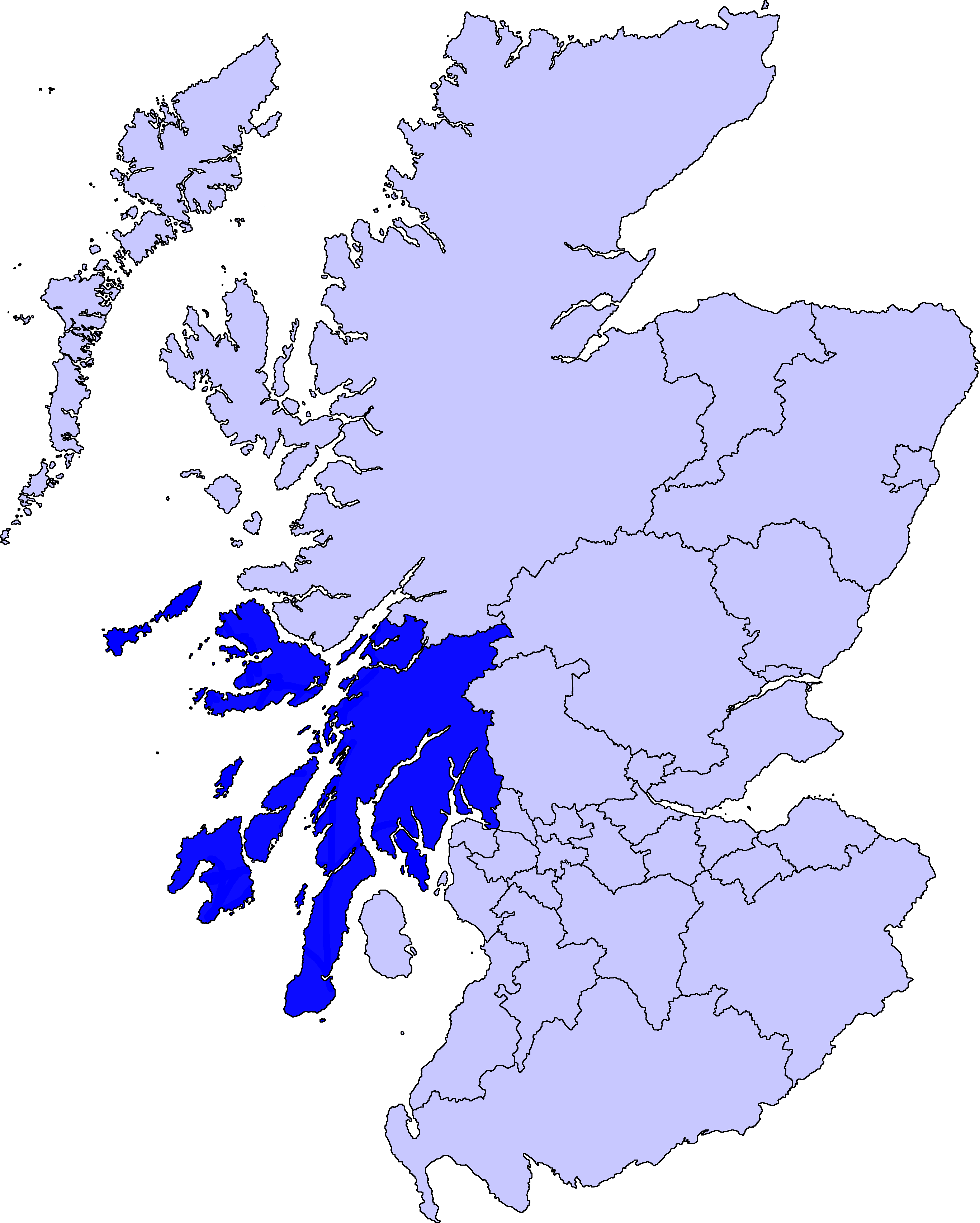 map of Argyll and Bute